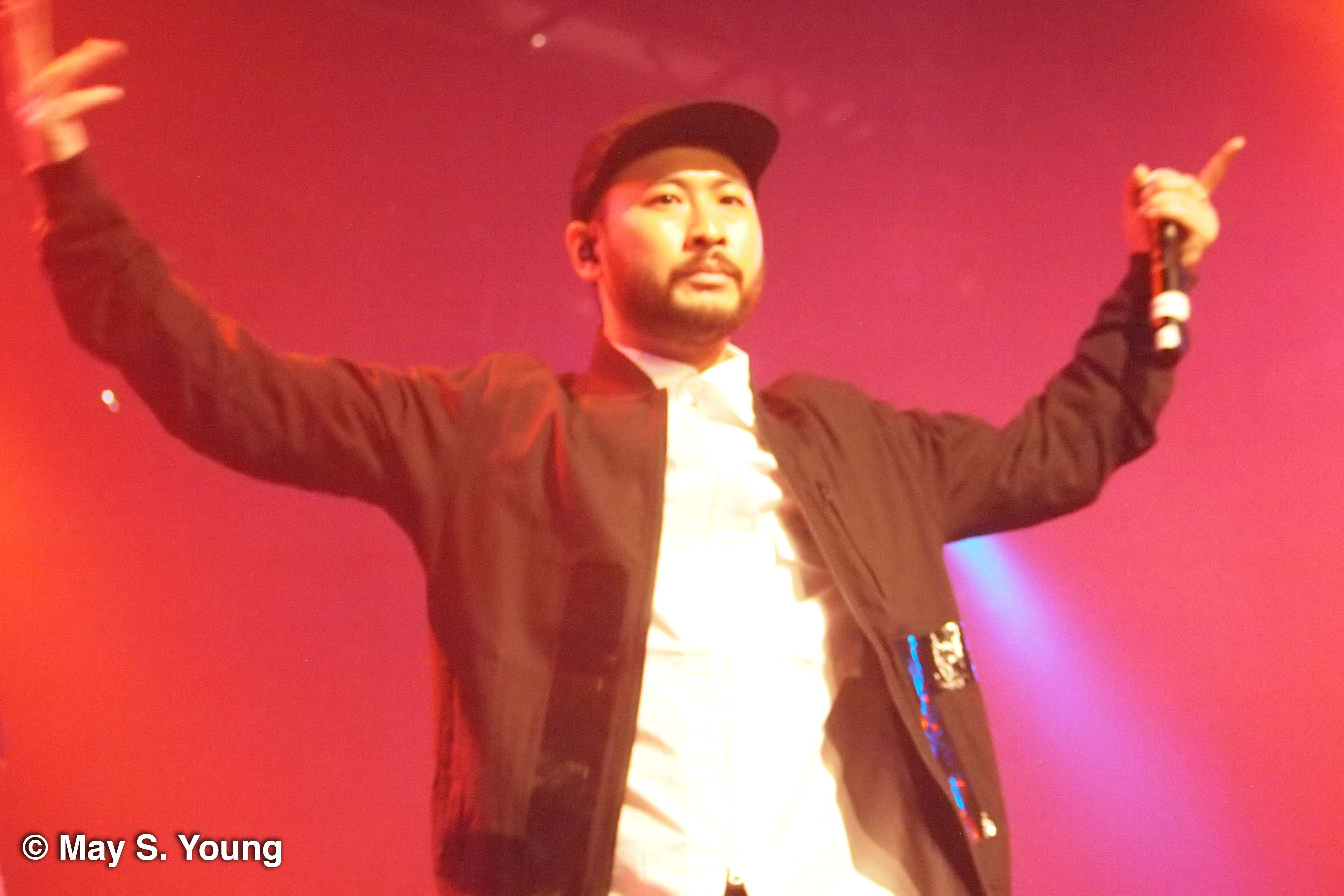 OLYMPUS DIGITAL CAMERA Epik High, Master Wu & DJ Soulscape at Best Buy Theater, New York City - 6/12/2015